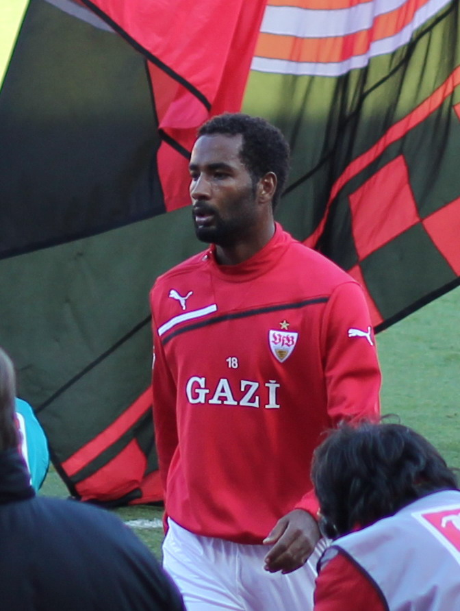 Cacau, football player for German side VfB Stuttgart, 2011/12 season